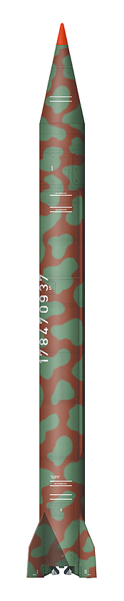 Hwasong 6